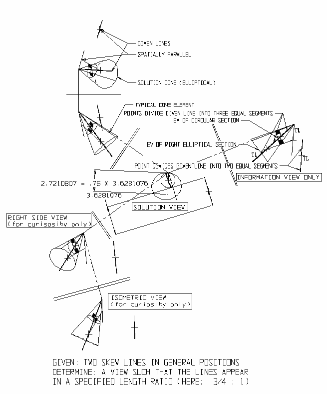 Descriptive geometry - skew lines appear in specified length ratio This drawing is one of several in a series used to illustrate Descriptive Geometry examples. 2005 United States Department of the Navy